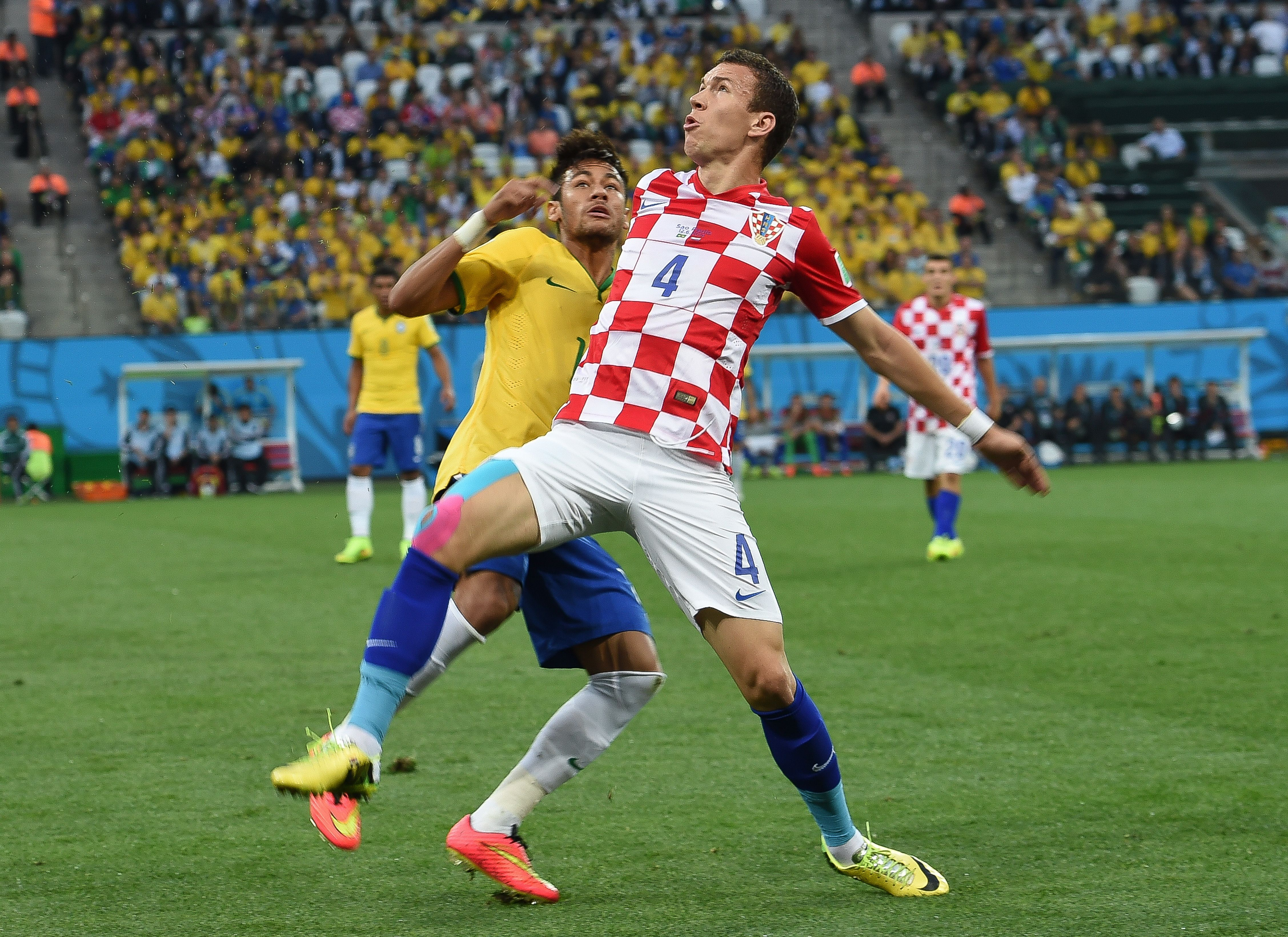 Brazil and Croatia match at the FIFA World Cup 2014-06-12